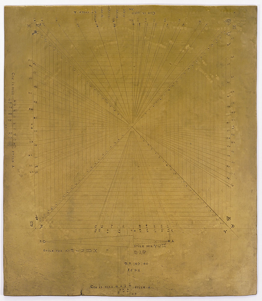 AuthorUnknownDescription